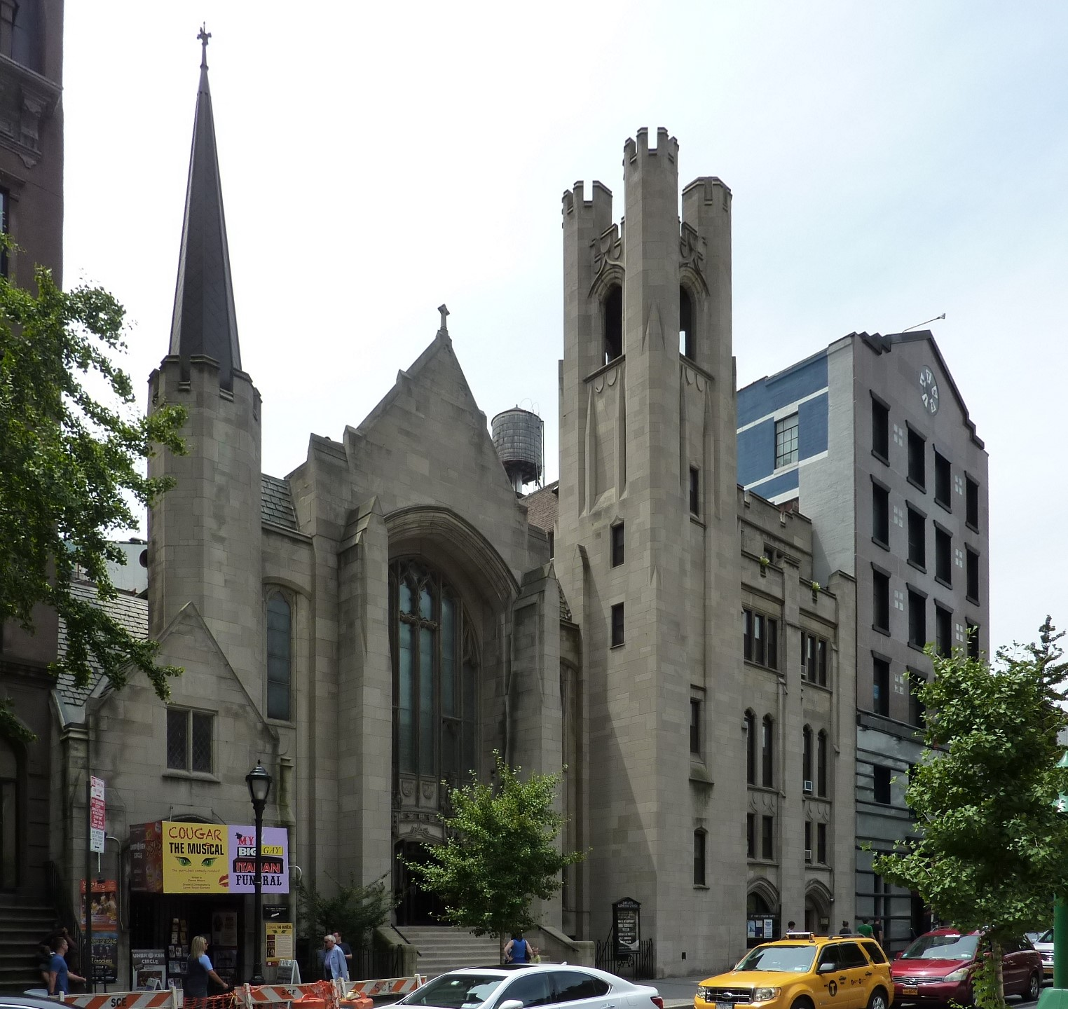 St. Luke's Lutheran Church (Manhattan)